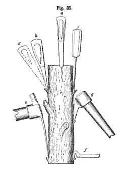 19th century knowledge carpentry and woodworking adze versus axe